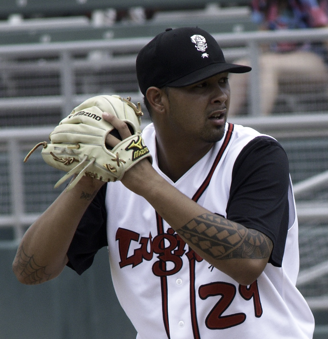 Dustin Antolin pitching for the Lansing Lugnuts in July 2011